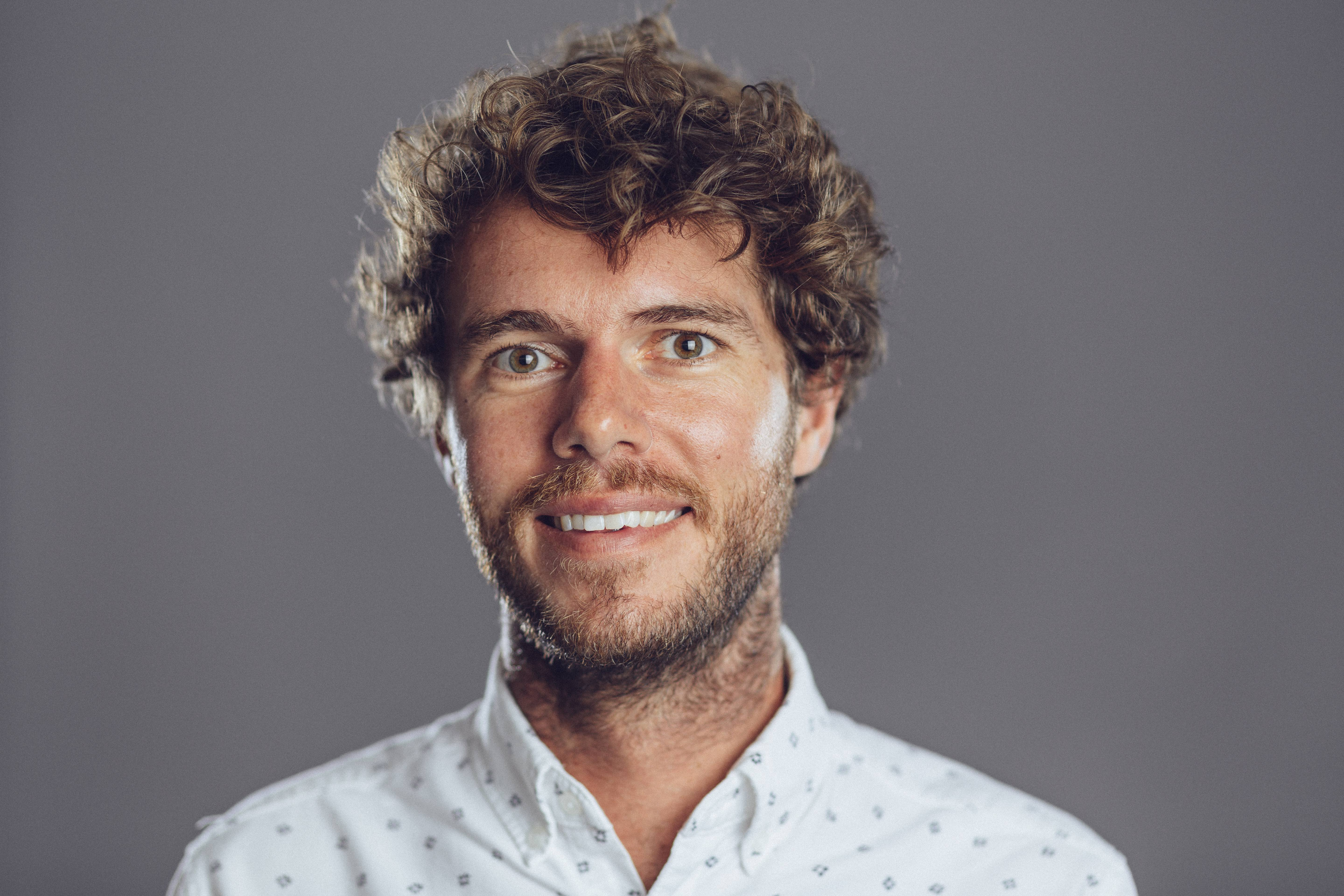 Eoin smiling for the camera